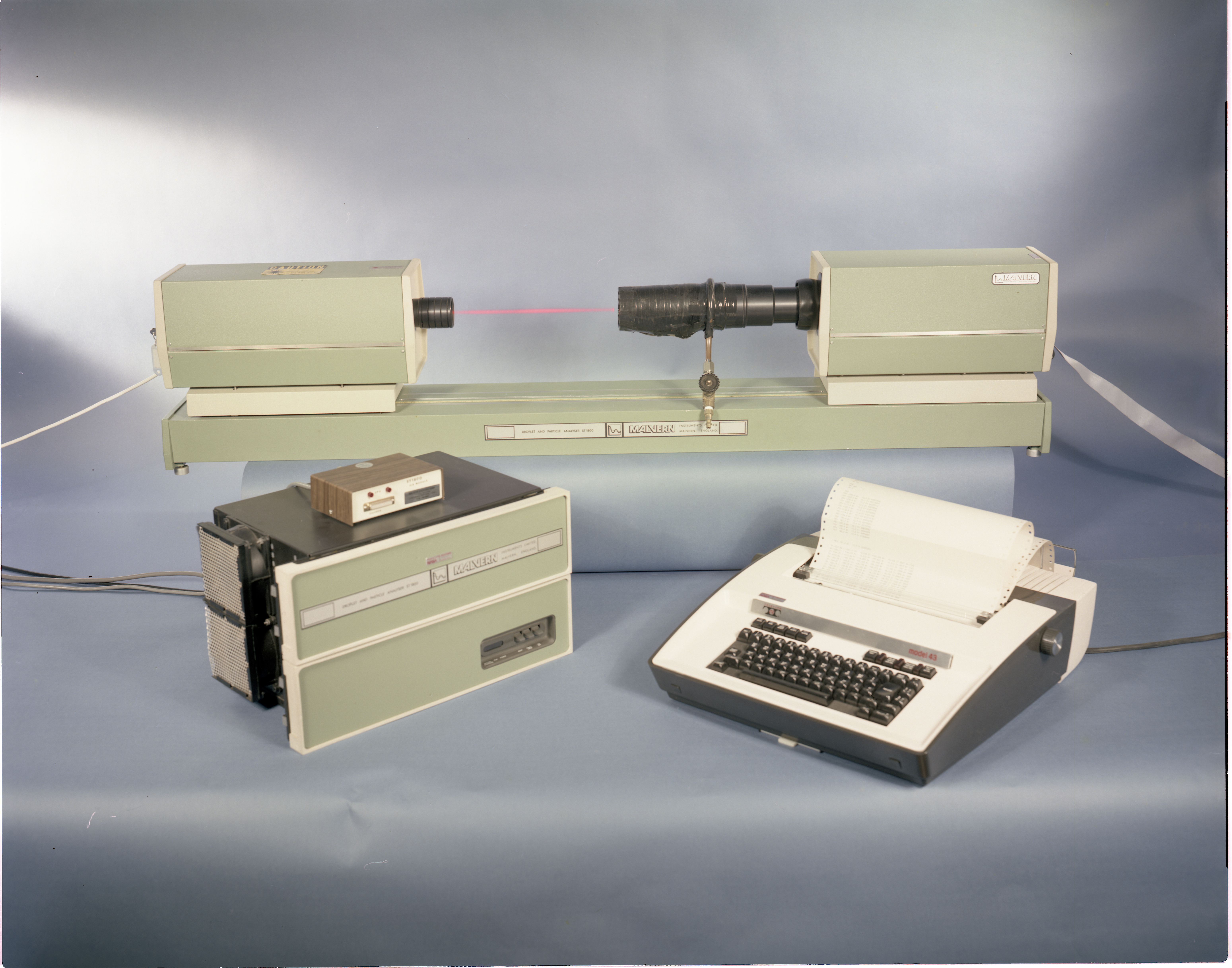 Scope and content: The original finding aid described this as: Capture Date: 11/19/1979 Photographer: DONALD HUEBLER Keywords: Larsen Scan